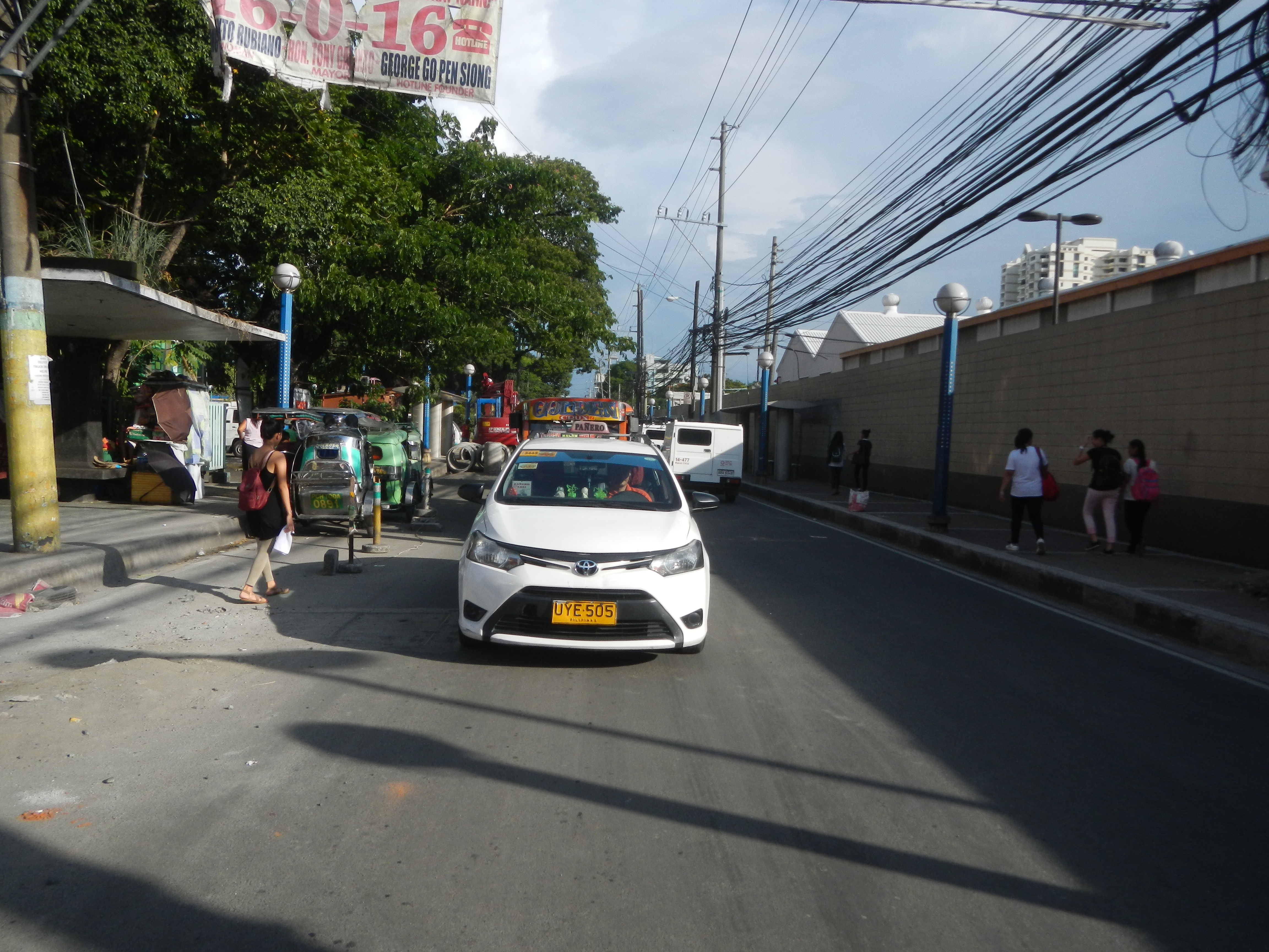 Pasay City West High School beside City University of Pasay in Pasadeña Street, founded on May 26, 1994 Local colleges and universities (Philippines) beside Pasay City West High School from Harrison Avenue Francis Burton Harrison Avenue, known as F.B. Harrison Avenue , F.B. Harrison Street, Pasay City located in List of barangays of Metro Manila Legislative district of Pasay Barangay 70, Zone 9, Legislative district of Pasay City, Pasay City.